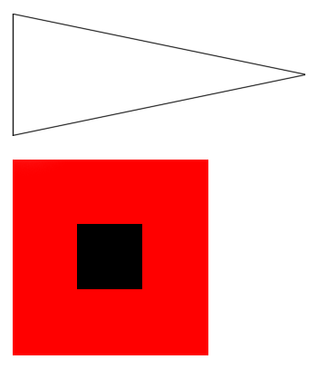 U.S. Storm Warning with Northwest Winds; White pennant above square red flag with black center.